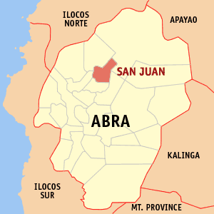 Map of Abra showing the location of San Juan